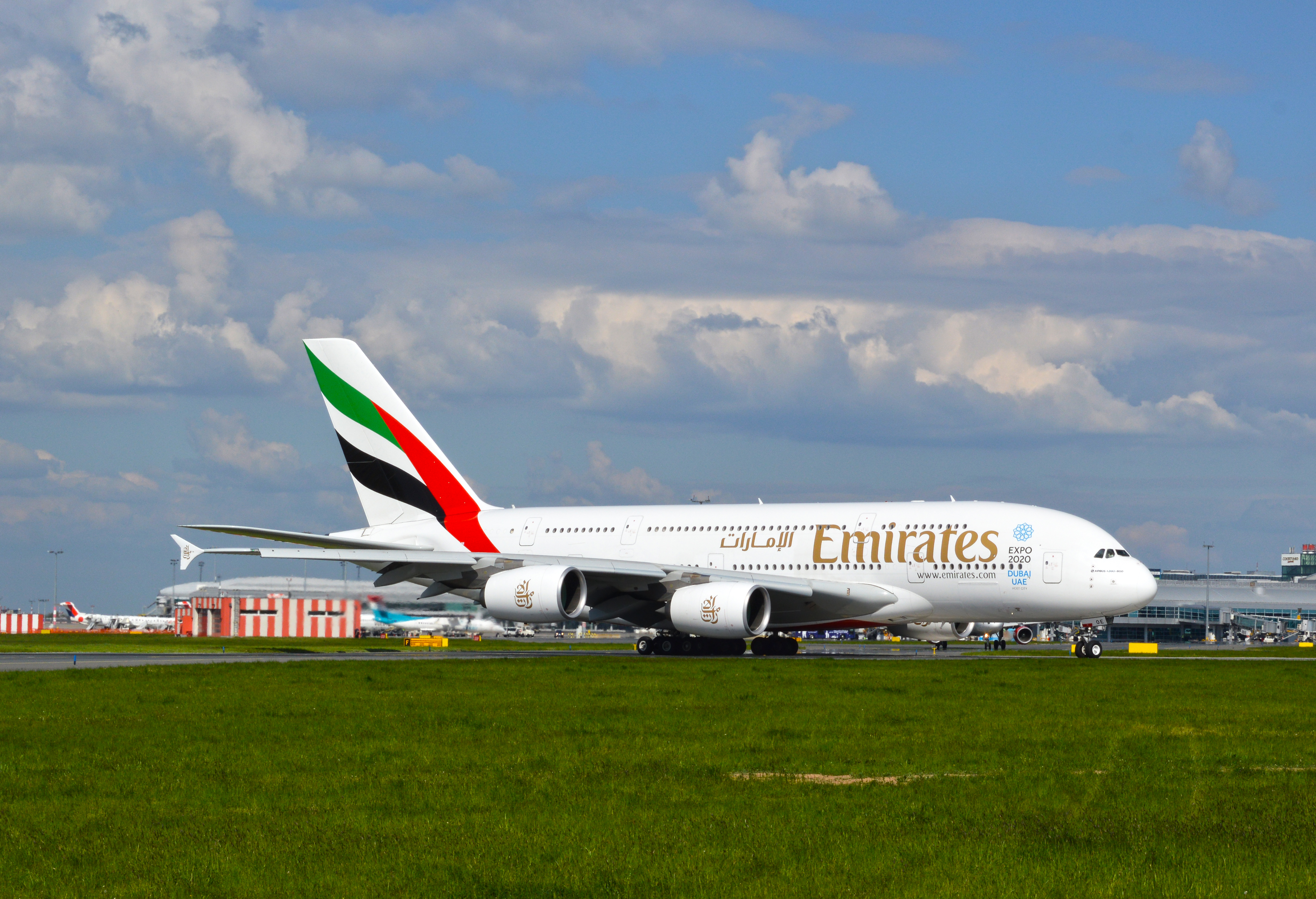 Emirates Airbus A380 A6-EOE at Prague Airport